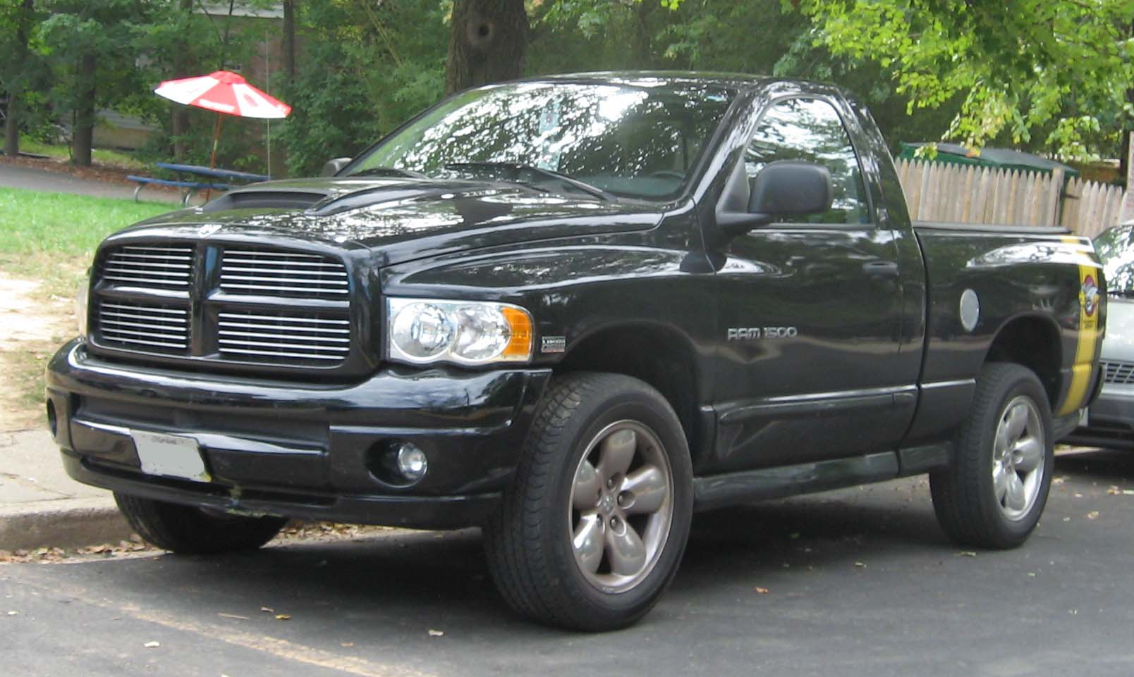 2004-2005 Dodge Ram photographed in College Park, Maryland, USA.